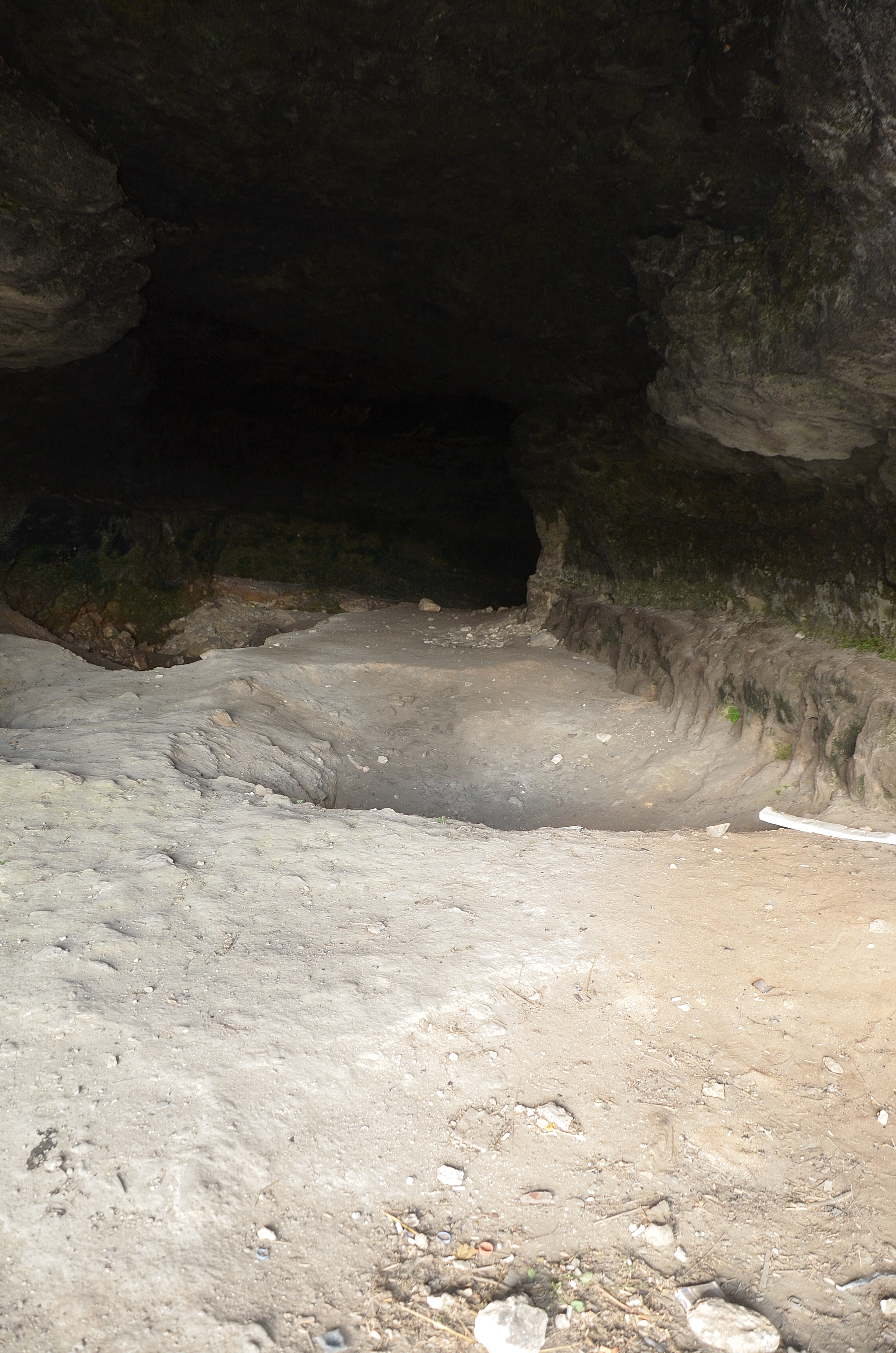 A view into the cave inside from the main entrance at lower cave of Yarımburgaz Cave in Başakşehir, Istanbul, Turkey